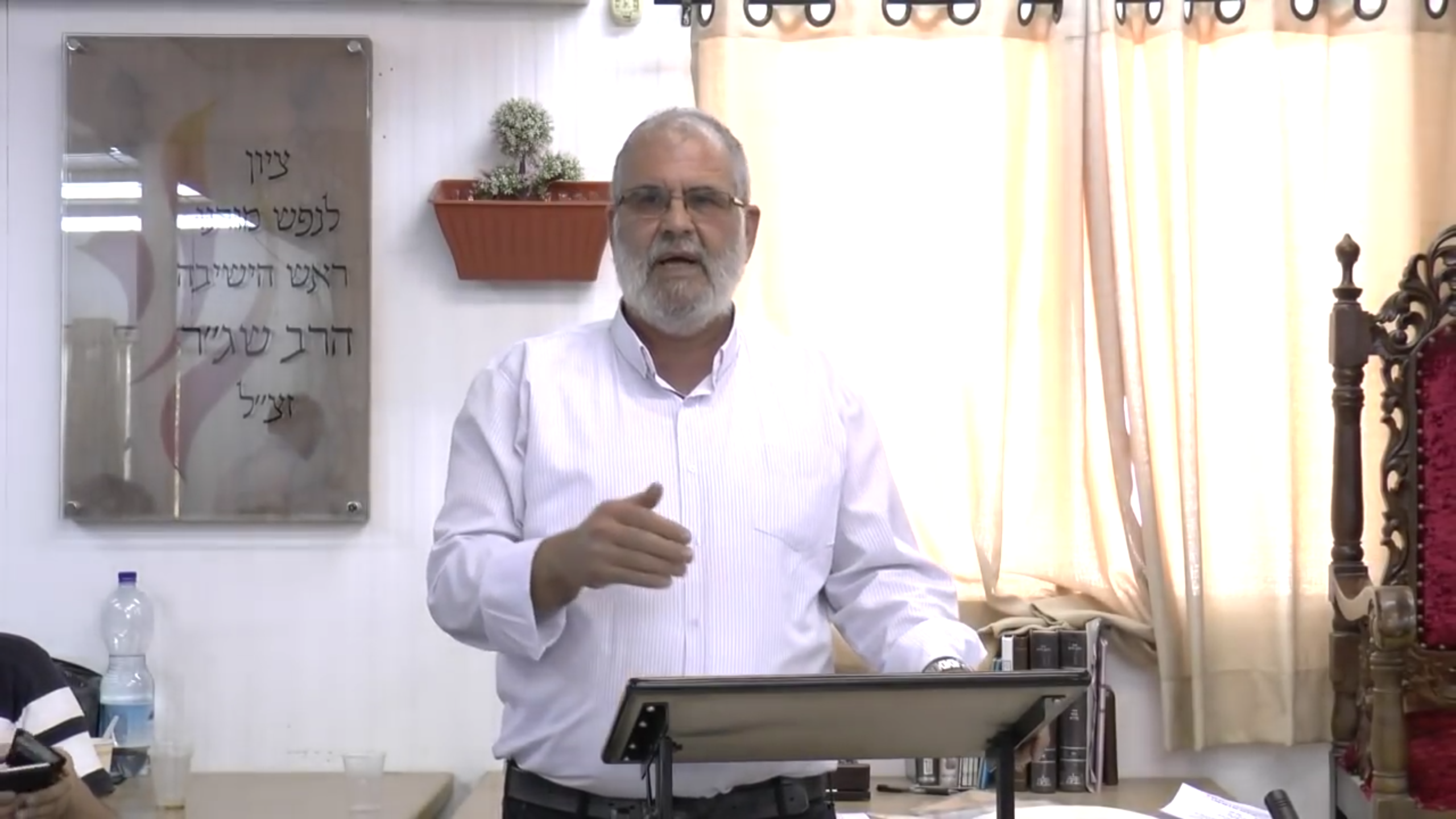 Rabbi Bigman during a lesson on Rav Shagar's philosophy